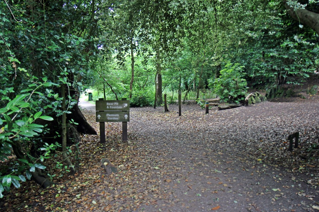 Signs on the footpath, Eastham Country Park